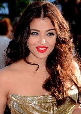 Aishwarya Rai Bachchan at the 2014 Cannes Film Festival (cropped)